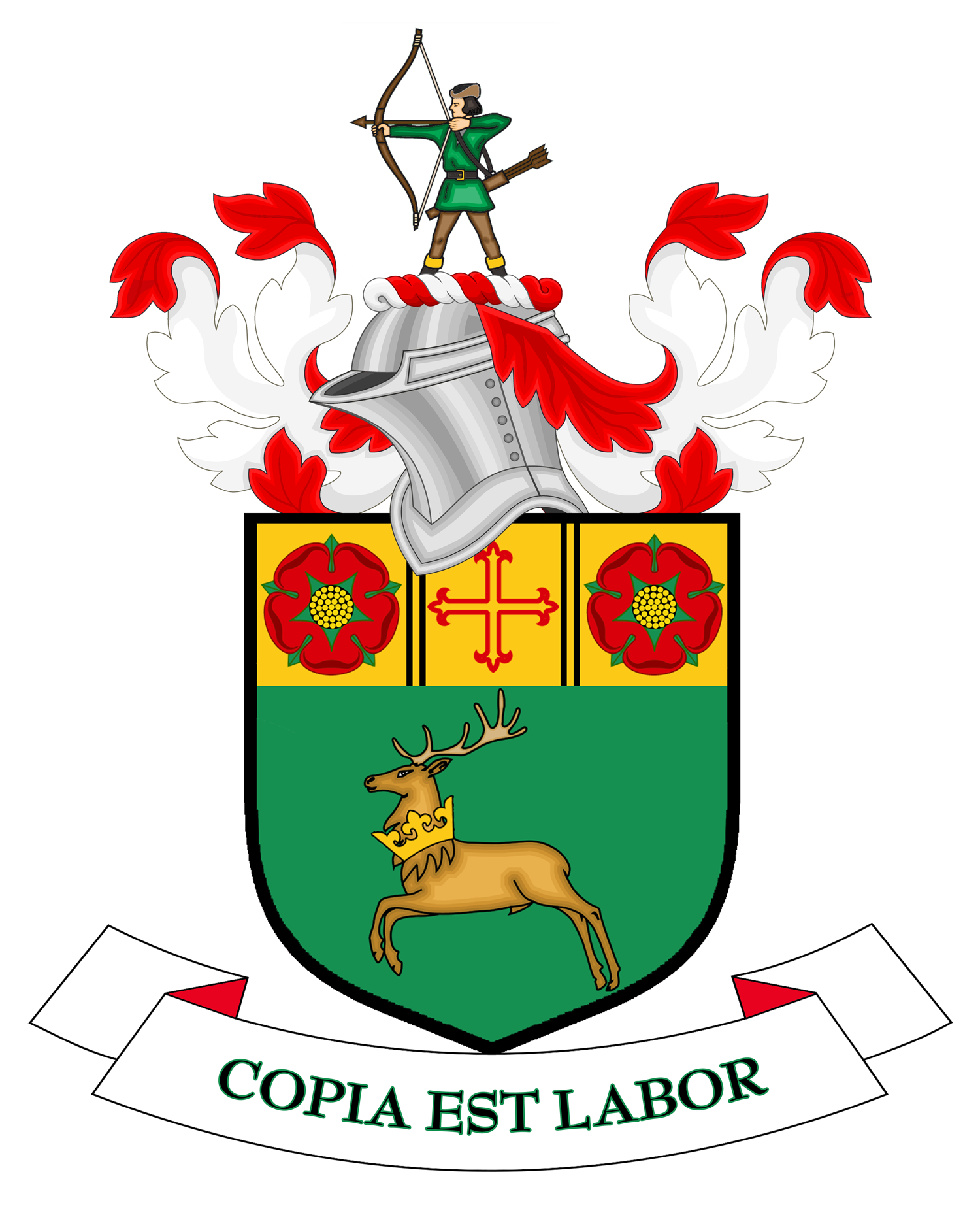 The Coat of arms of Horwich Town Council, the parish council authority for the civil parish of Horwich, in Greater Manchester, England. The blazon is:ARMS: Vert a Hart courant proper gorged with an Ancient Crown on a Chief or a Cross Flory Gules voided of the Chief between four Pallets two and two Sable all between two Roses Gules barbed and seeded proper. Motto : Copia est Labor. Origin/meaning The arms were officially granted on 1st September 1975, Horwich UDC arms were unofficial but made formal after the merger with Bolton. The arms show a deer and huntsman - reminders of Horwich as a Royal hunting forest in the middle ages, two red Lancashire roses separated by a pair of black railway lines depicting the railway industry of Horwich and the Cross of the Pilkington family. The motto "Copia est Labor" roughly translates to "Industry brings Prosperity". CREST: On a Wreath Argent and Gules a Huntsman habited and drawing his bow all proper.